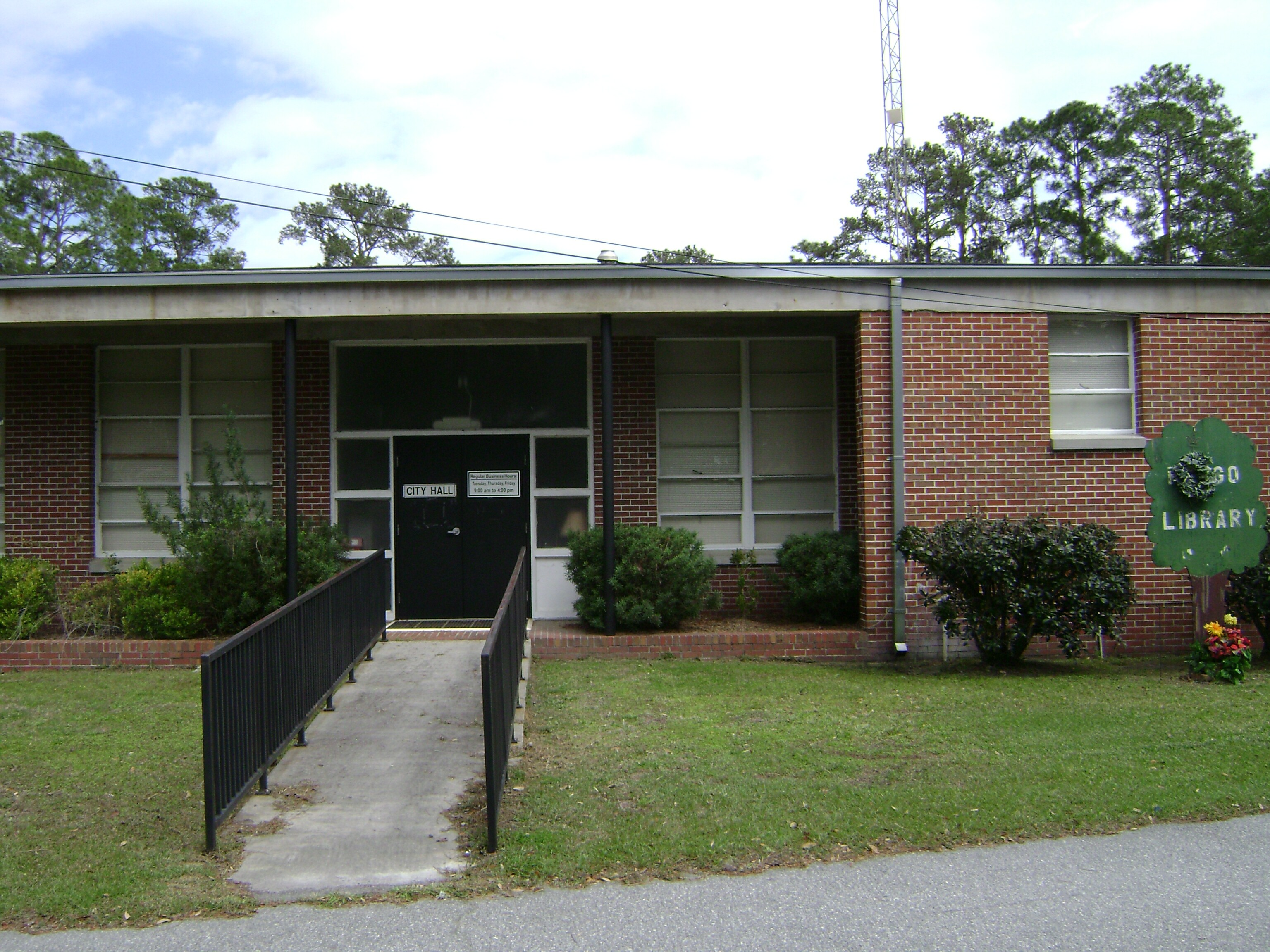 Fargo City Hall and Fargo Library on City Hall Drive in Fargo, Clinch County, Georgia